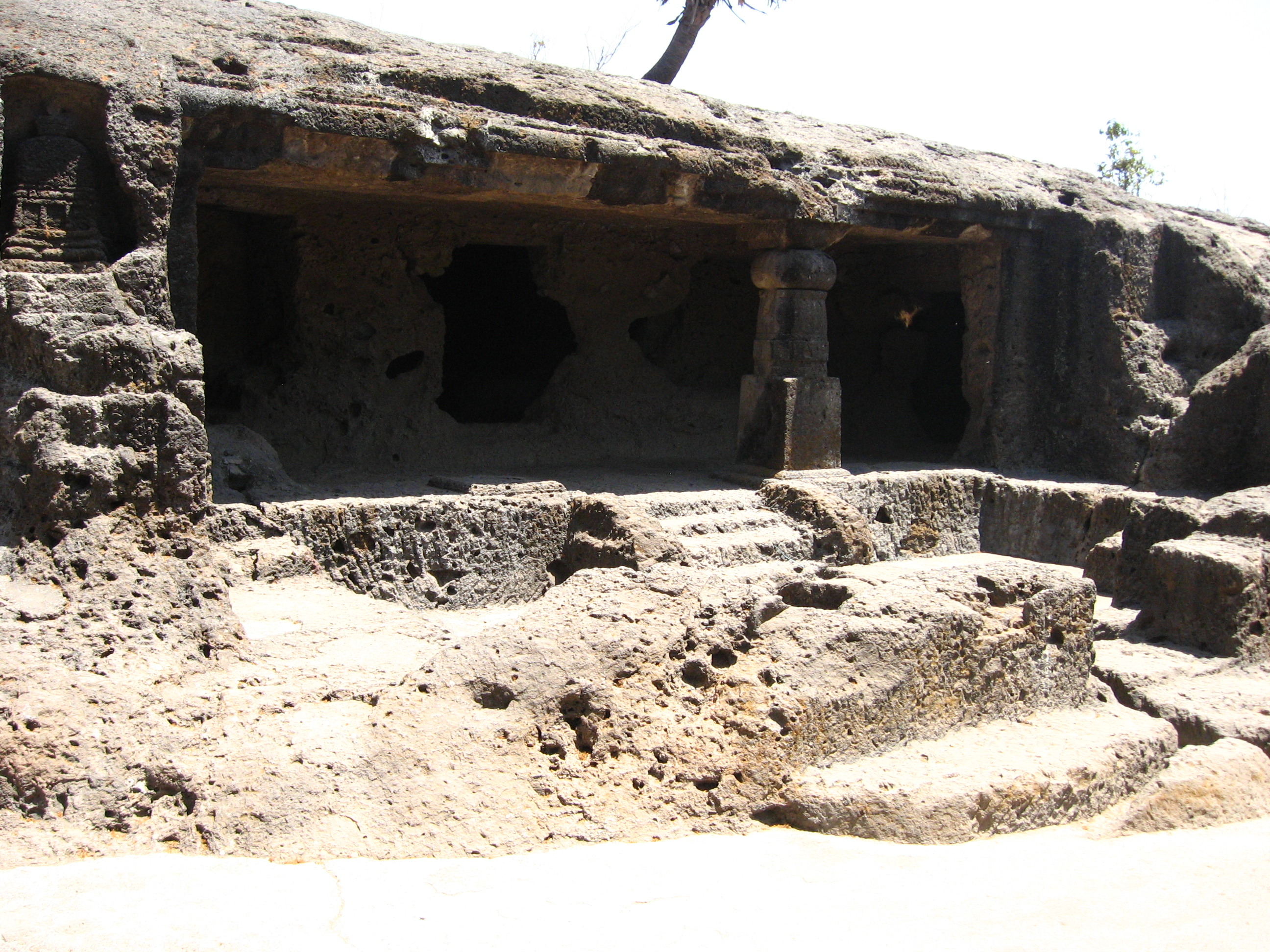 The 2000-year old Buddhist Mahakali caves near Andheri, Mumbai, India